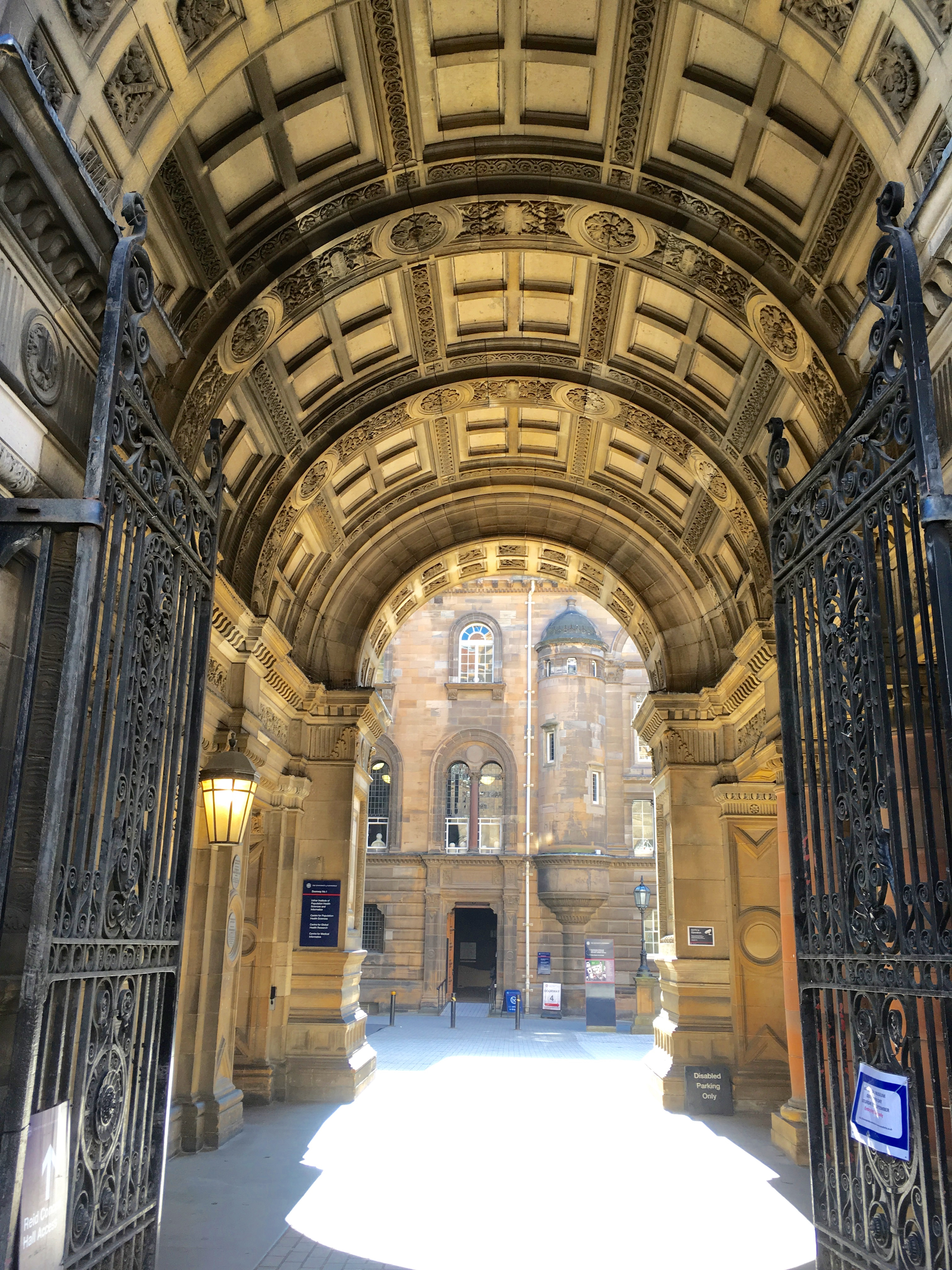 Edinburgh, Teviot Place, University Of Edinburgh, Medical School, New Building Wikidata has entry Q17570915 with data related to this item.